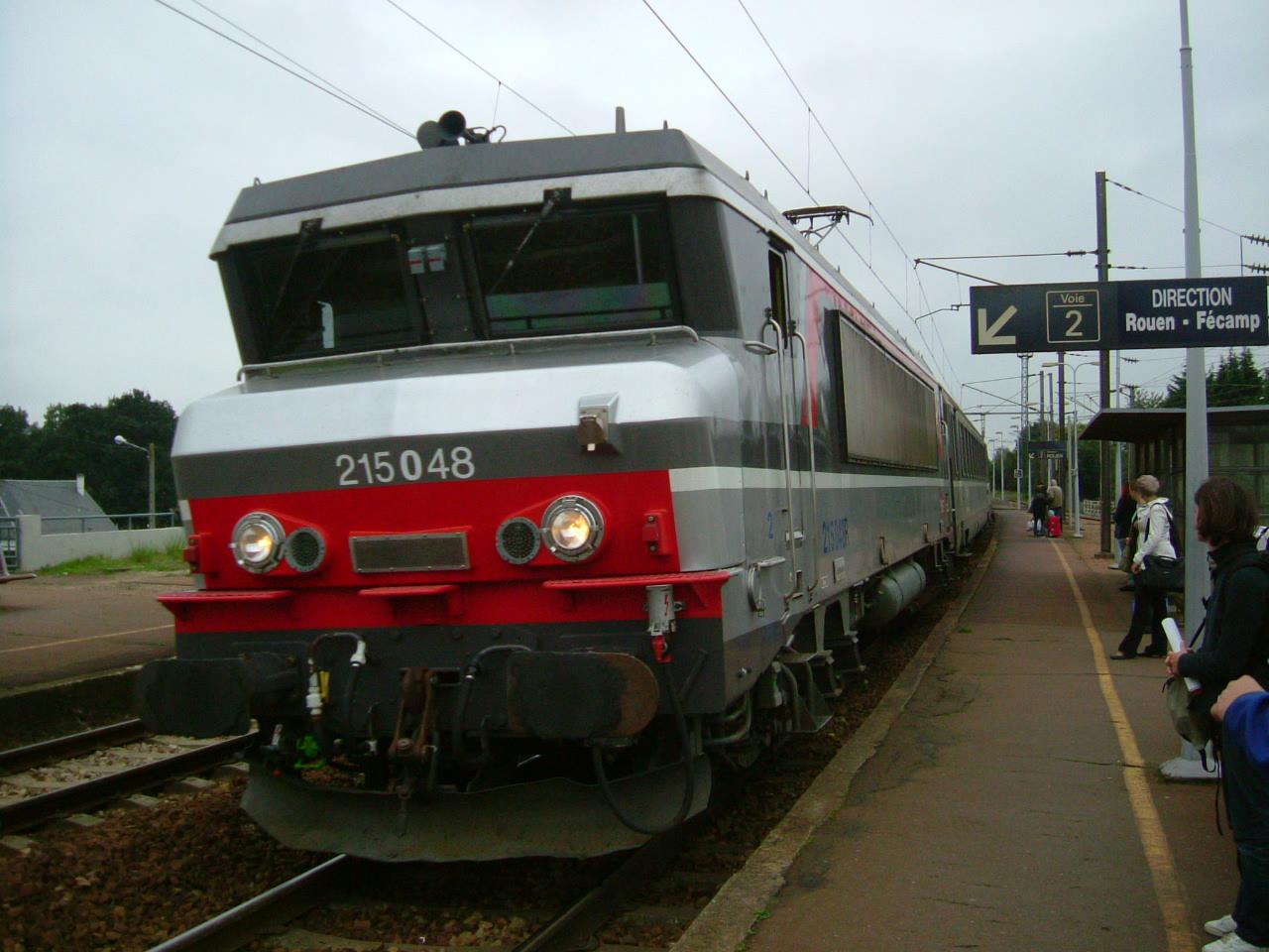 SNCF Class BB 15000 at Bréuté-Beuzeville station